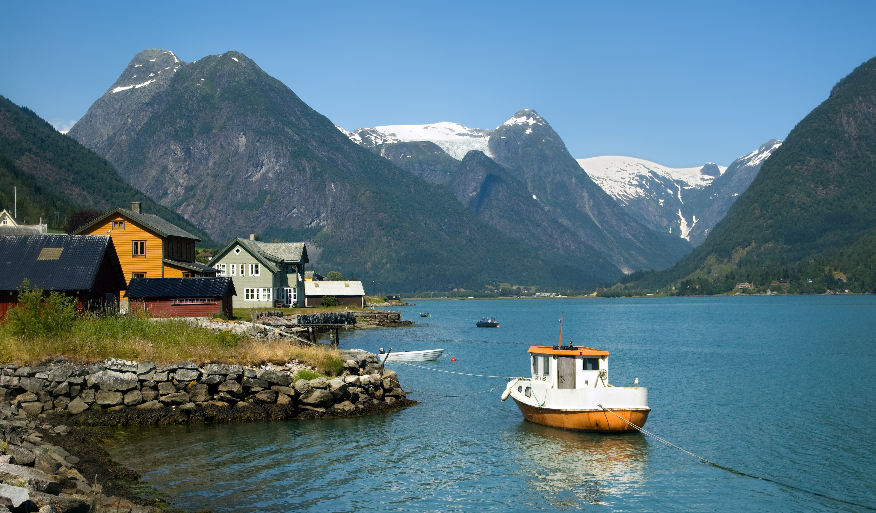 The village of Fjærland and the Fjærland Fjord in Sogn og Fjordane county, Norway.